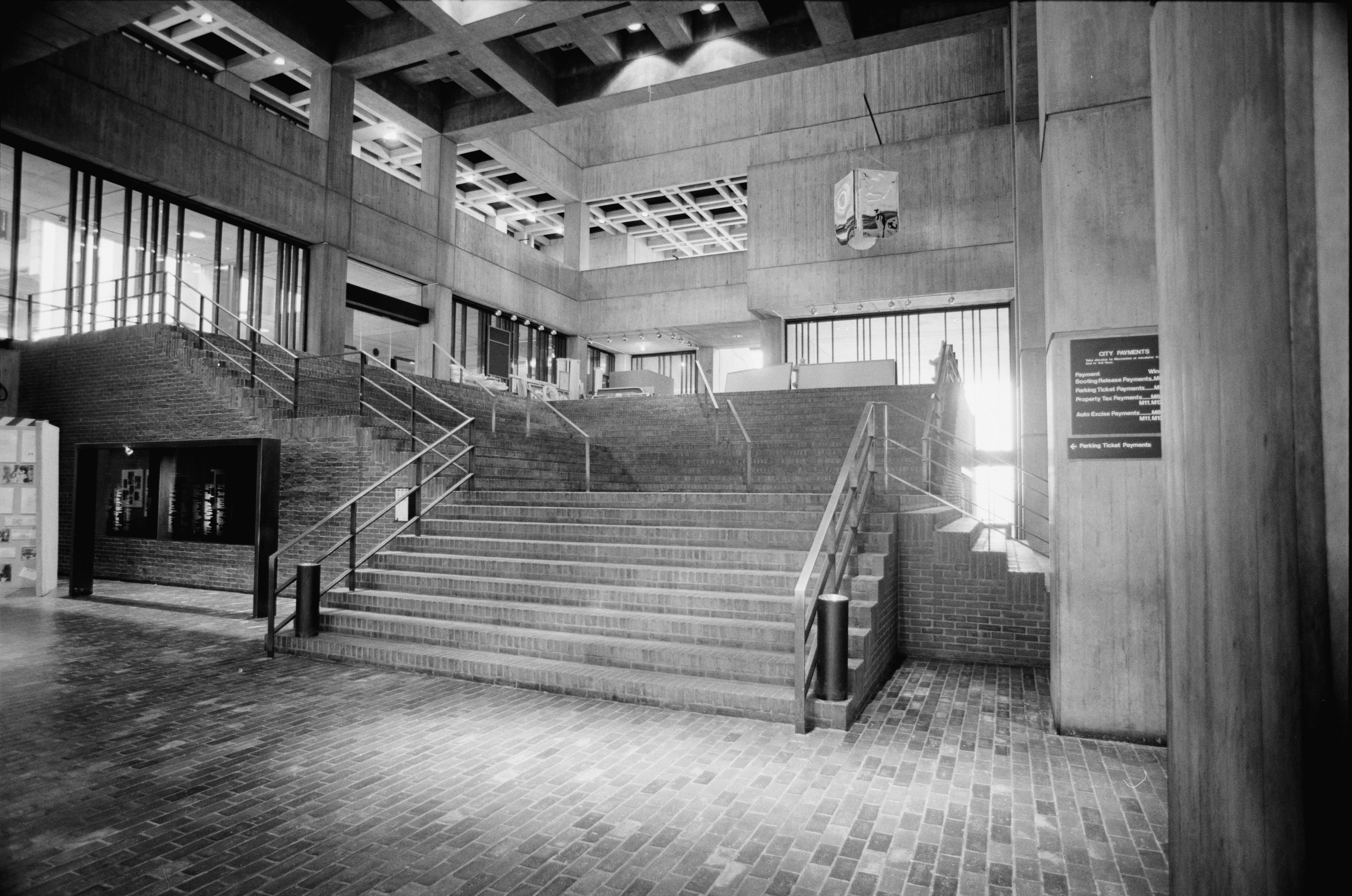 Boston City Hall, Boston, Massachusetts